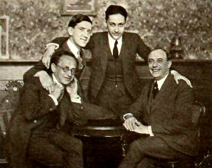 New executives at Universal City: seated: Isadore Bernstein (left), producing manager; Sam Van Ronkle, assistant manager; standing: Louis Loeb, financial manager; and Irving Thalberg, west coast studio manager. On page 4026 of the May 8, 1920 Motion Picture News.